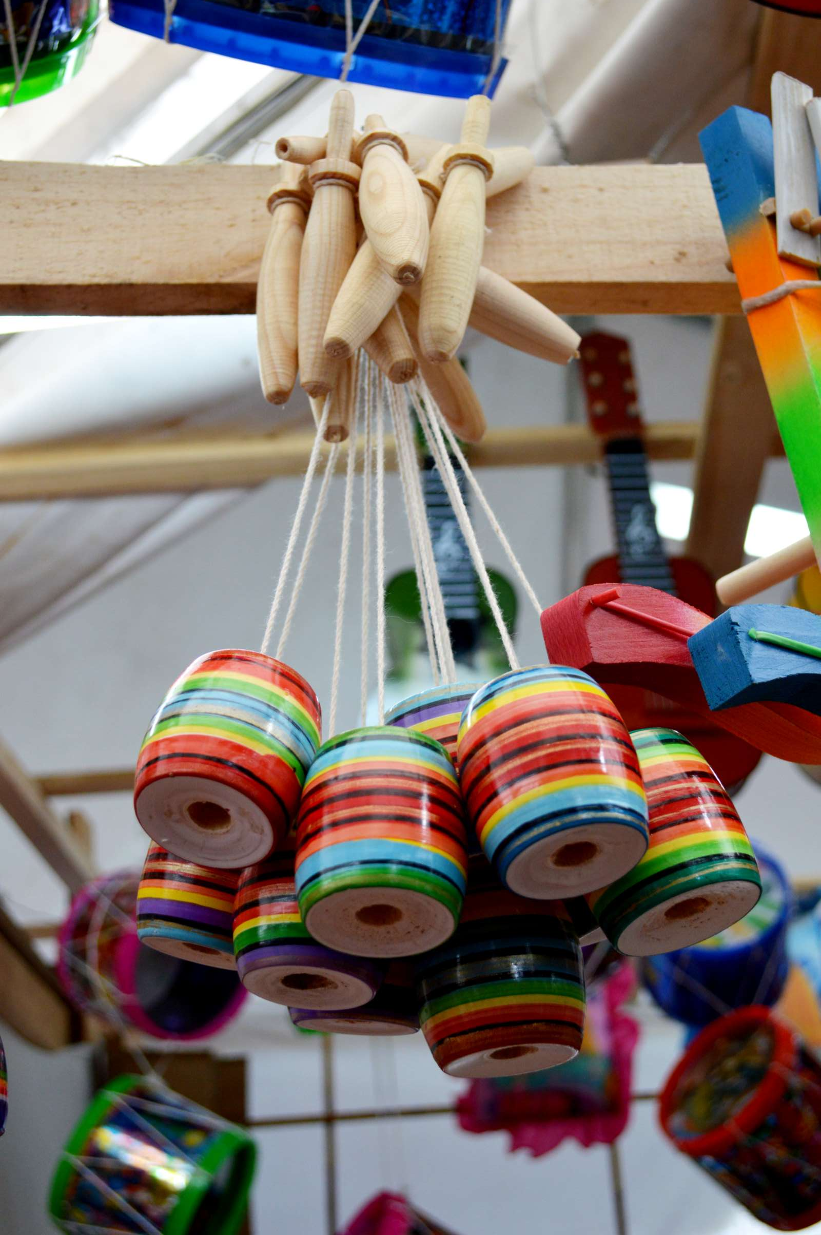 Ball in cup toys of wood at the Tianguis de Domingo de Ramos in Uruapan, Michoacan, Mexico